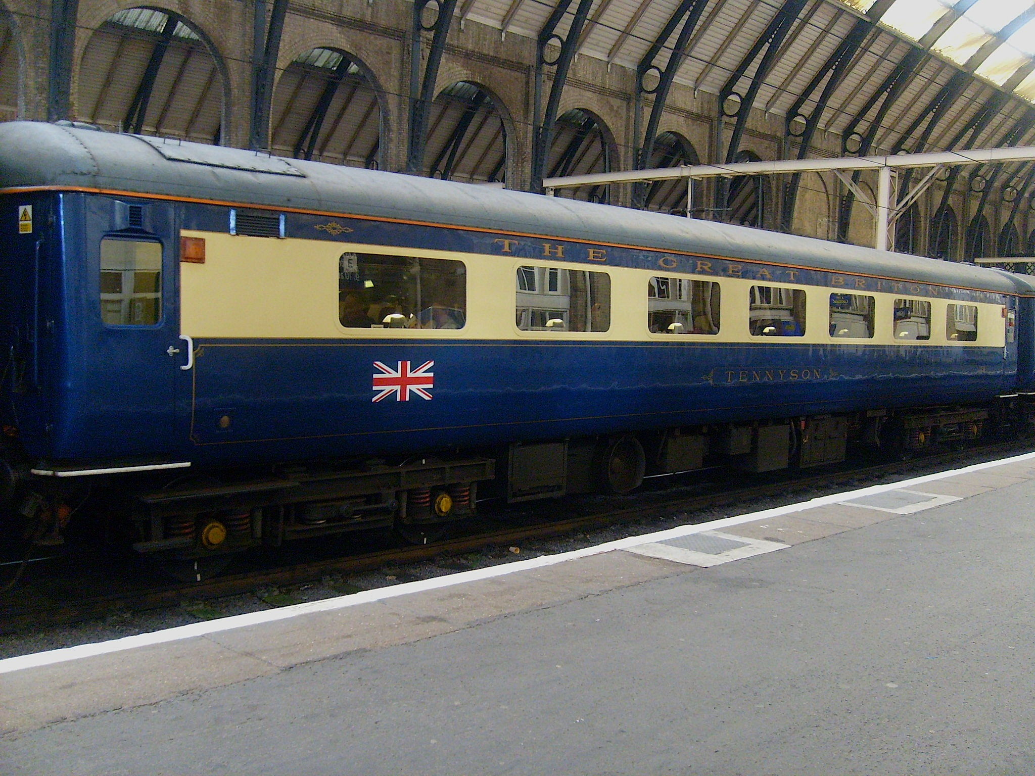 Riviera Trains Oxford Blue and Ivory liveried 'The Great Briton' Mark II FO No. 3356 'TENNYSON'.